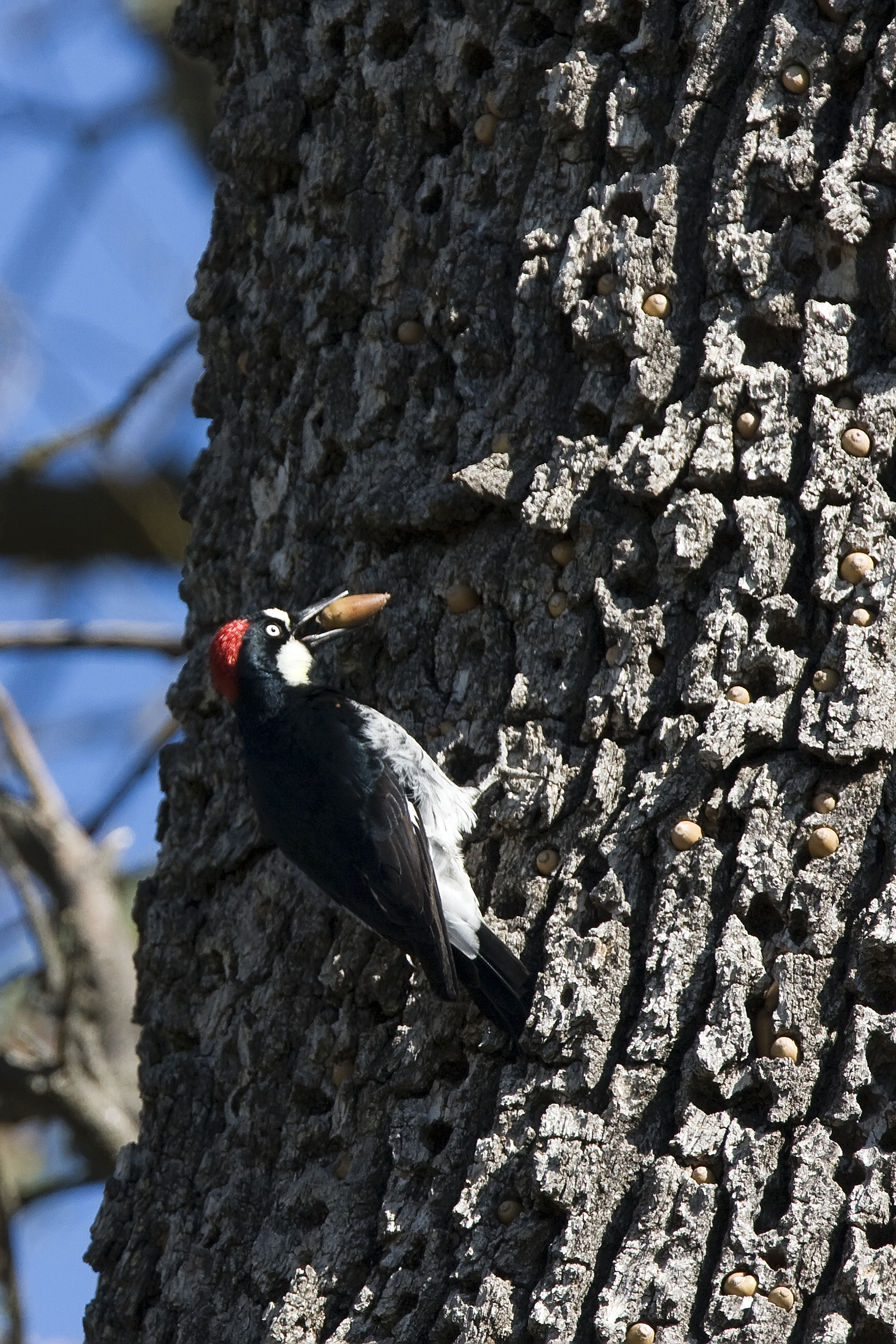 Female Acorn Woodpecker at Atascadero Lake.